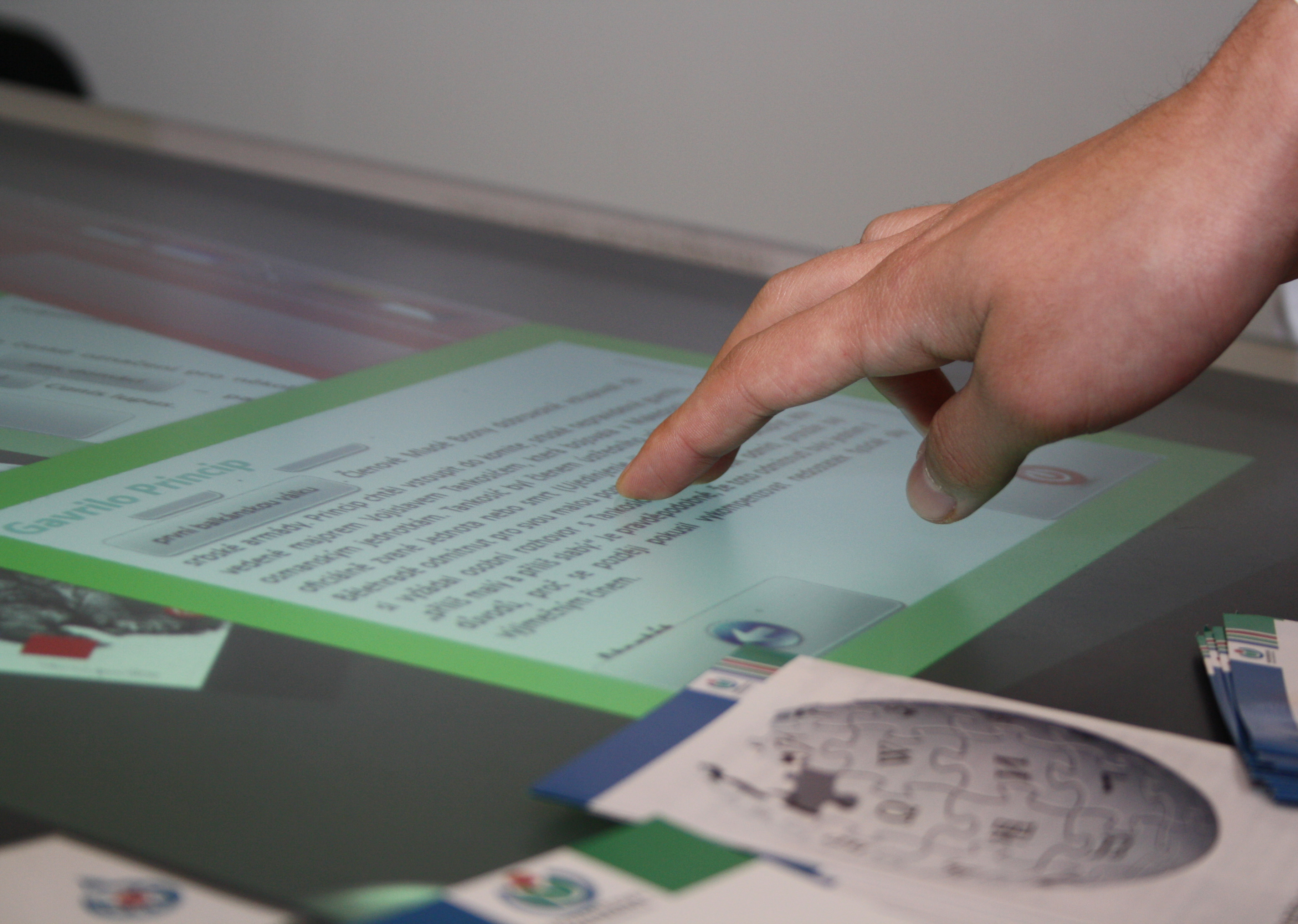 Microsoft Surface at Wikimedie Czech Republic presentation at LinuxExpo 2010